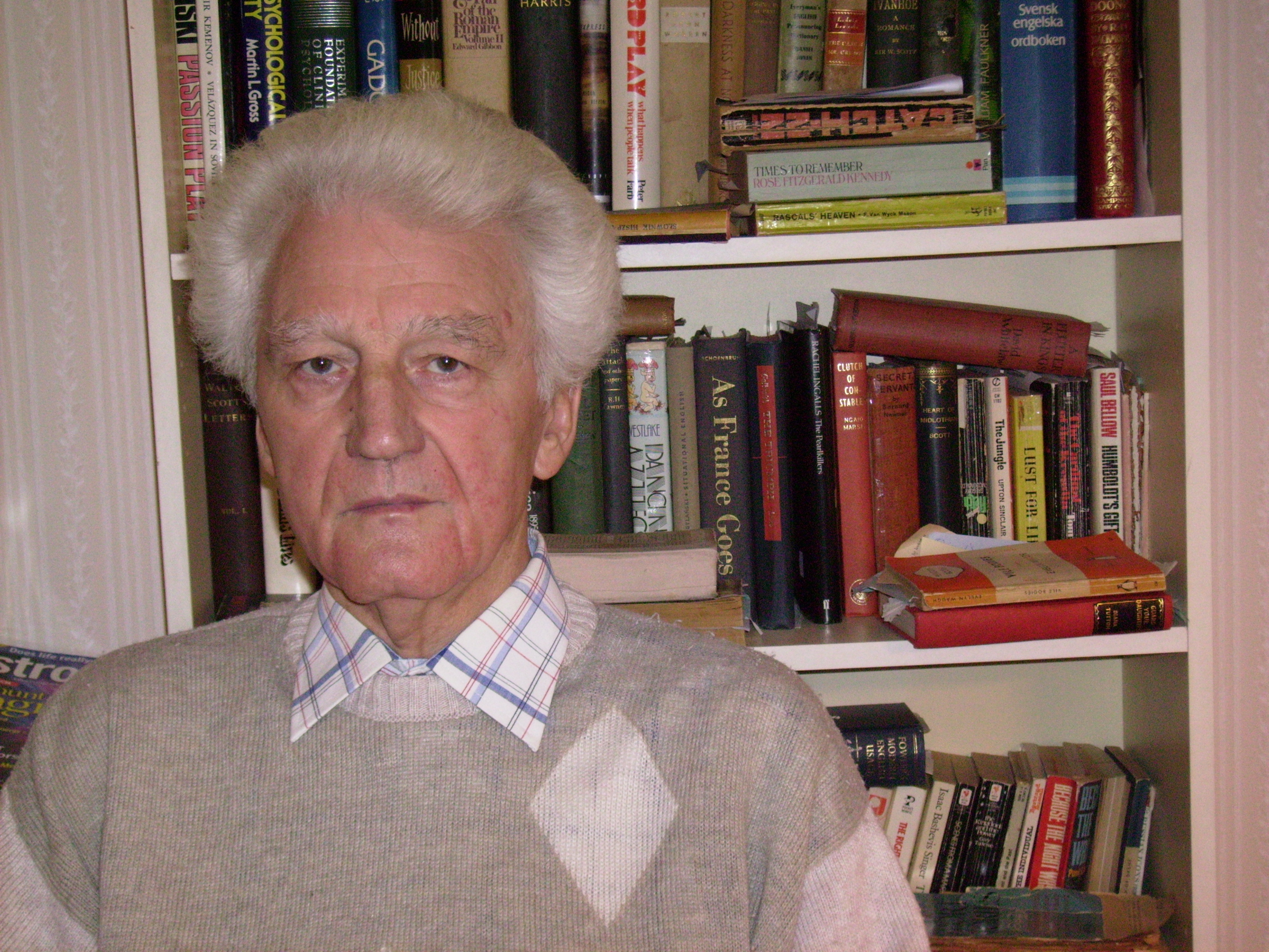 Remigiusz Napiorkowski, Malmö, 2010 - private foto.